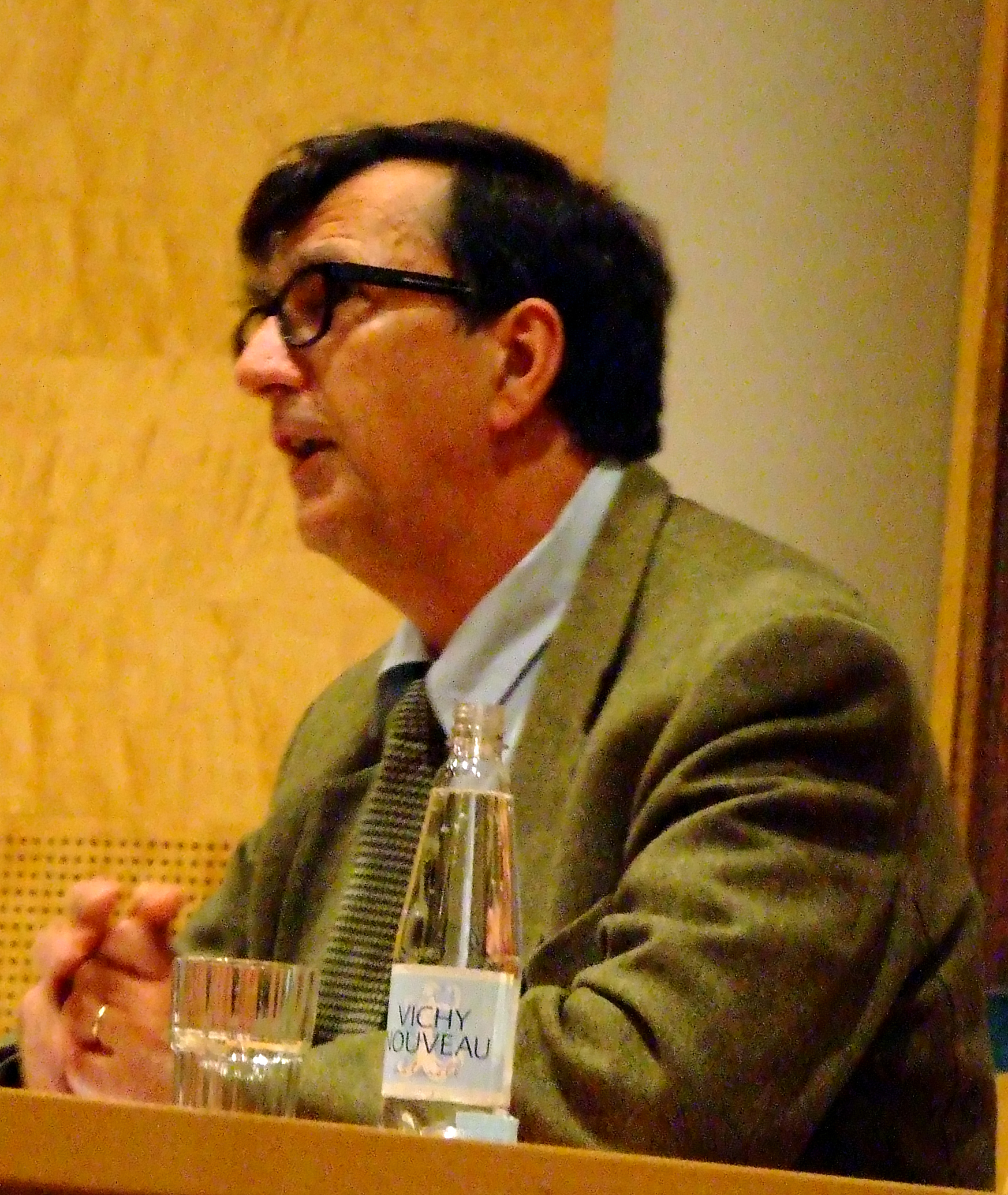 A lecture at the Gothenburg University.